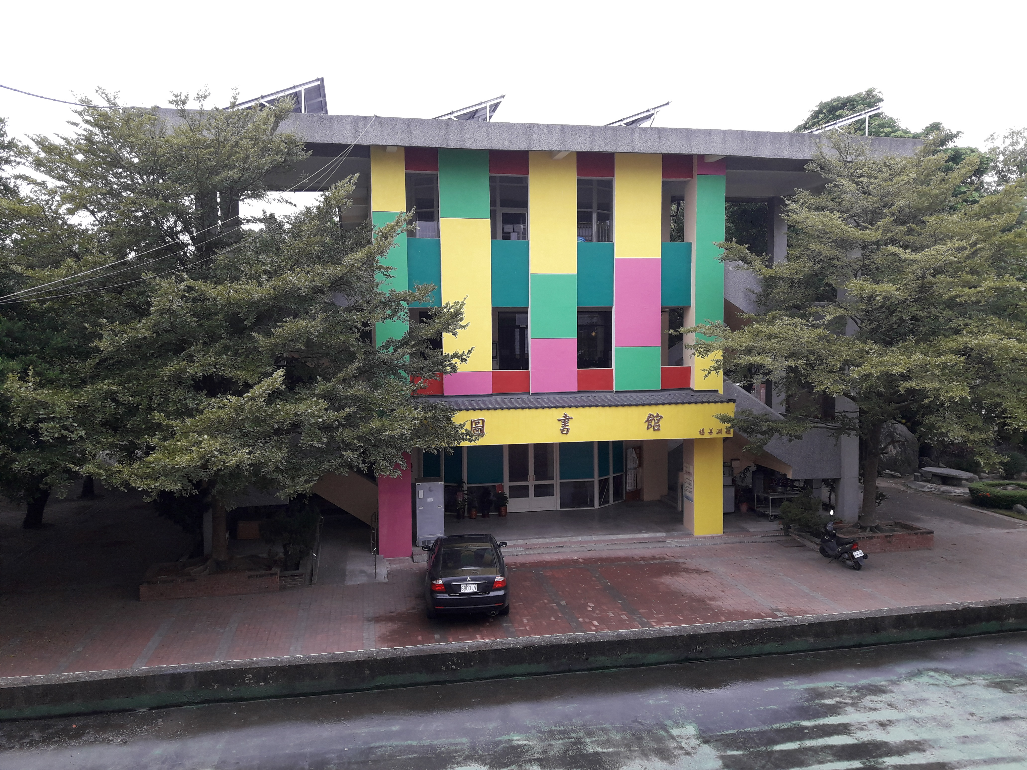 Yunlin County Tuku Junior high school (Taiwan)'s school library, which is located in Tuku Township in Yunlin. This picture was took on the aisle of the piano room in Yaoqun Hall, the gym of the school.